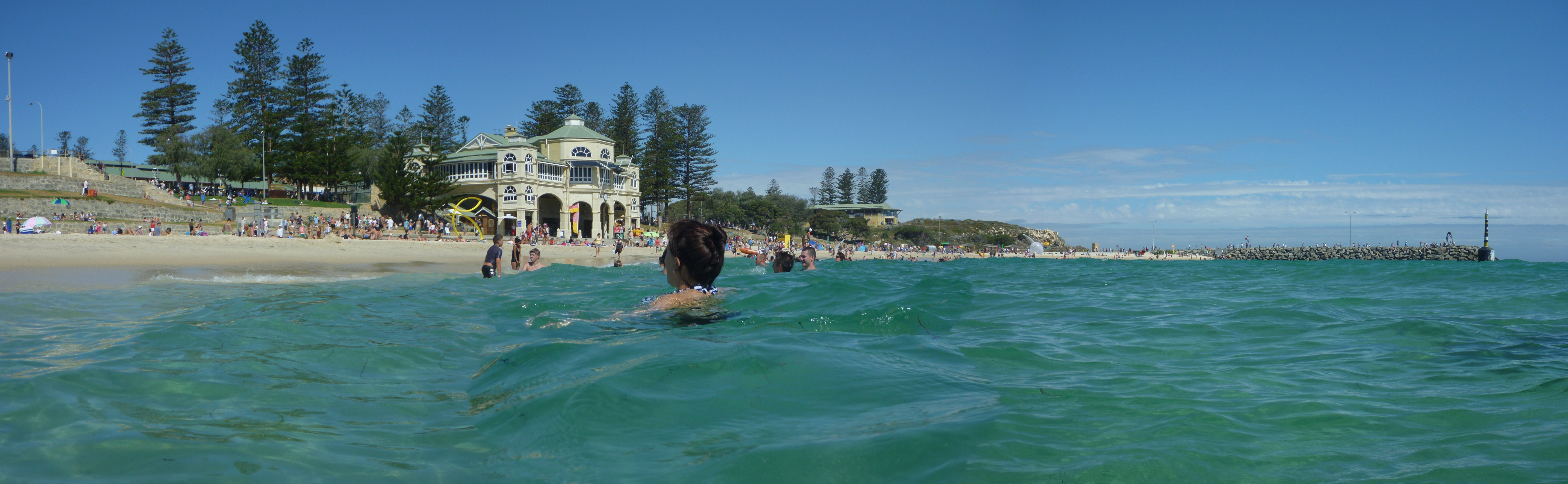 Cottesloe beach, Perth, Western Australia Panorama